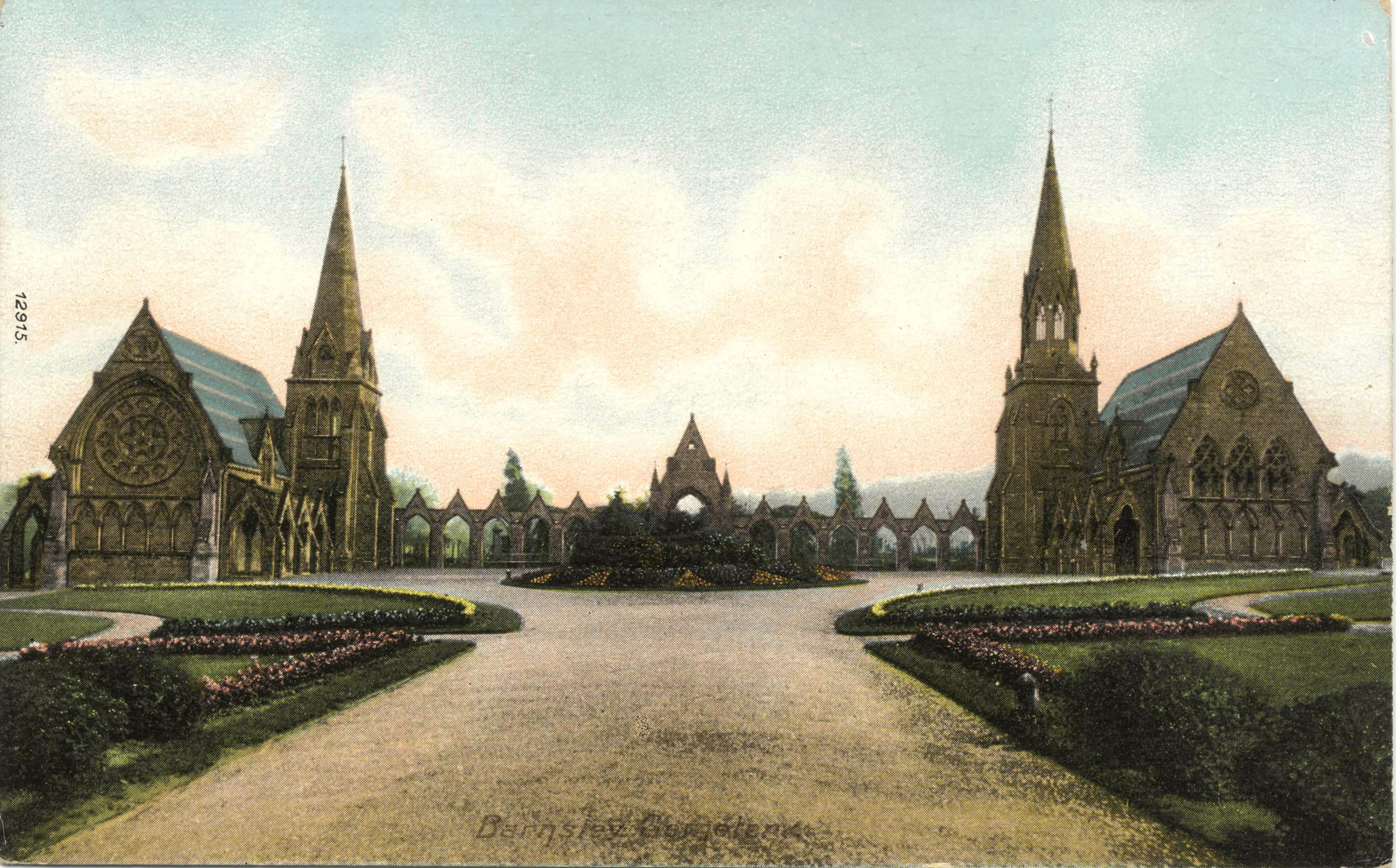 Tinted postcard of Former Barnsley Cemetery, on Cemetery Road, Barnsley, South Yorkshire. The two Gothic Revival chapels were designed by Perkin & Backhouse, completed in 1861, and demolished in 1983. The arcade between them survives, and is a Grade II listed structure.